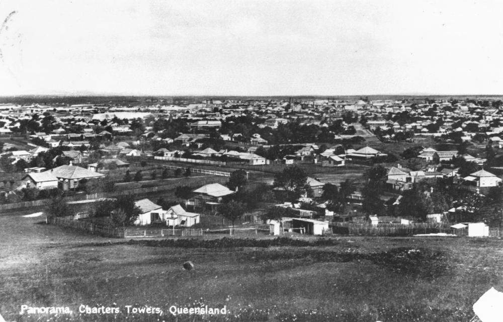 Panoramic view of Charters Towers, ca. 1906.